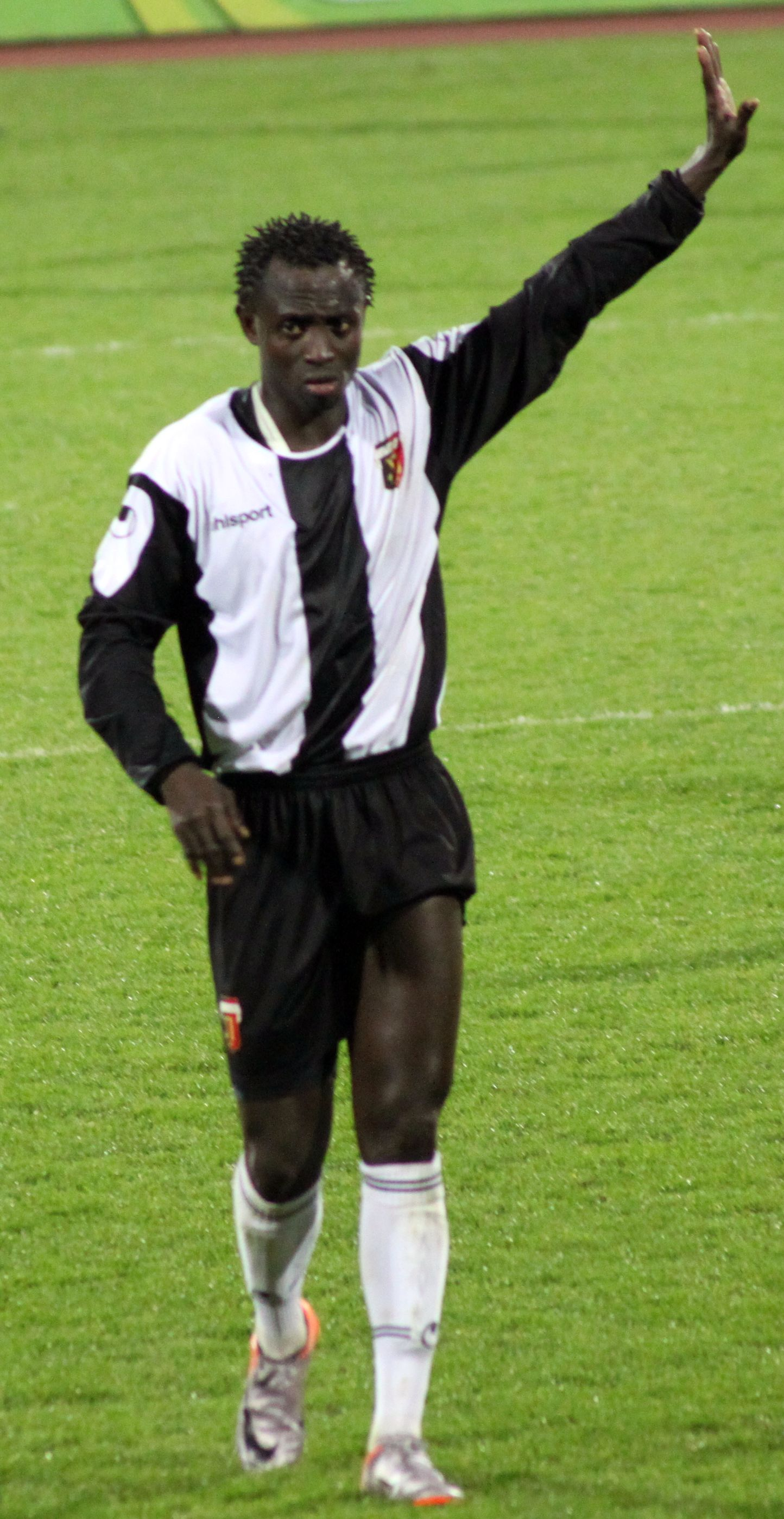 Basile Salomon Pereira de Carvalho (born 31 October 1981 in Zinguinchor) is a Senegalese footballer. He plays for Lokomotiv Plovdiv in Bulgarian A PFG.